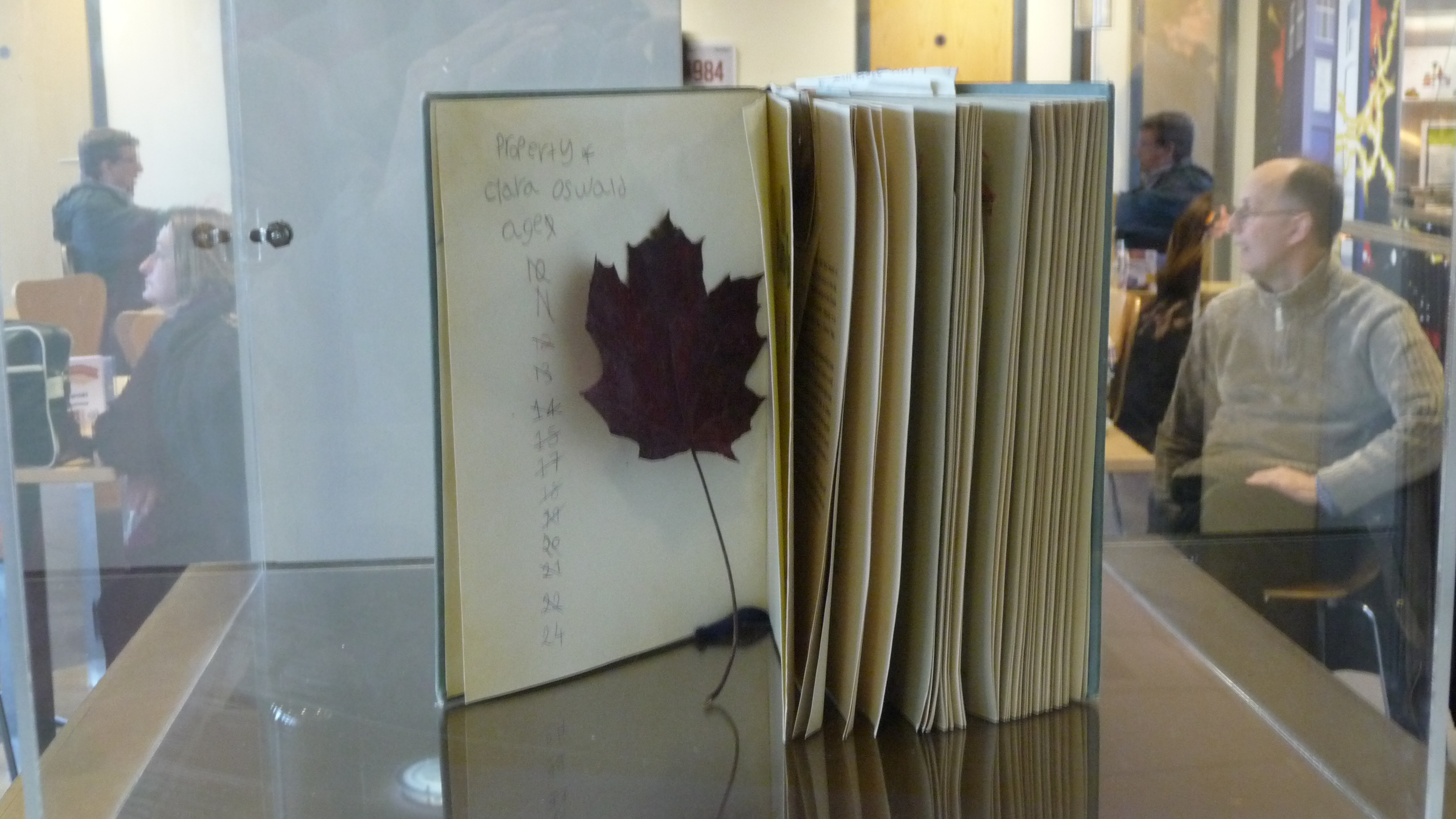 Dr Who Experience, Cardiff Doctor Who Experience